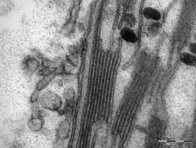 Transmission electron microscope image, showing part of a chloroplast (Anemone sp., leaf cell). The lines are grana, lamellas of thylakoids.